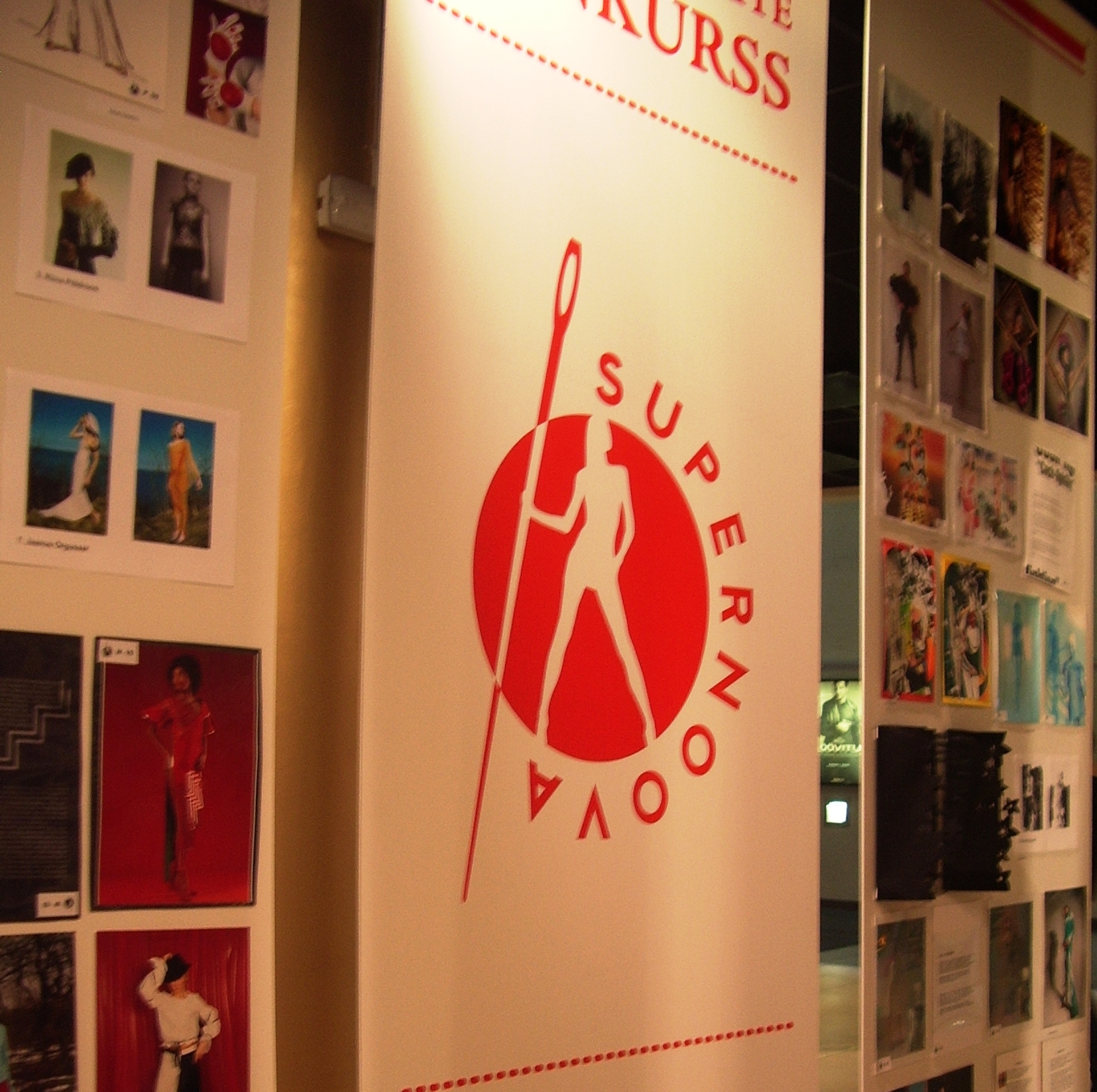 Logo of SuperNoova, a contest of fashion designers in Estonia, in an exhibition for SuperNoova 10th anniversary.